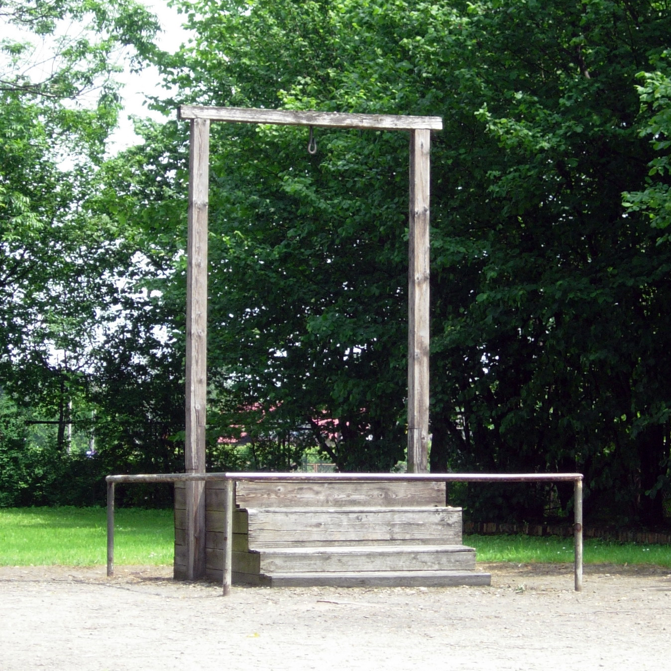 Gallows at Auschwitz I. Rudolf Höss was hanged here.